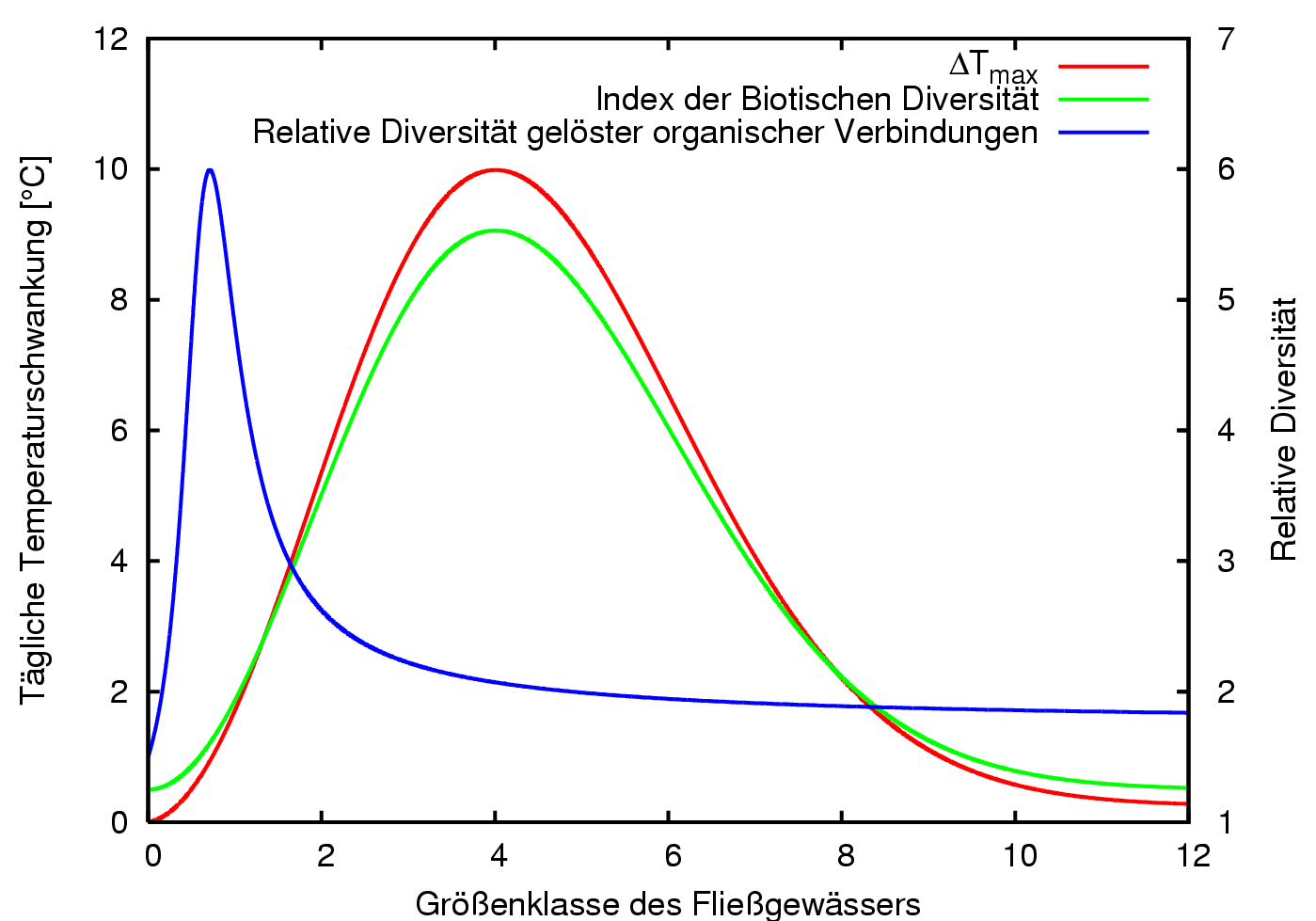 Qualitative curve plot of the physical and biological parameters of a model river in the River Continuum Concept.